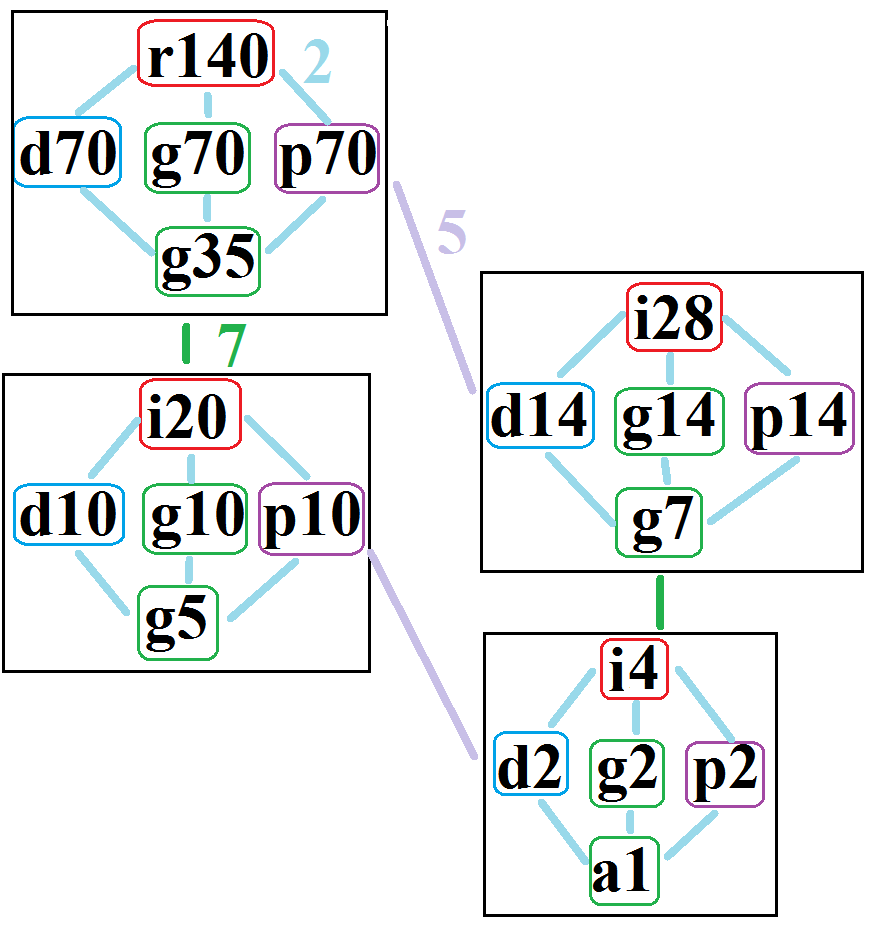 heptacontagon symmetries